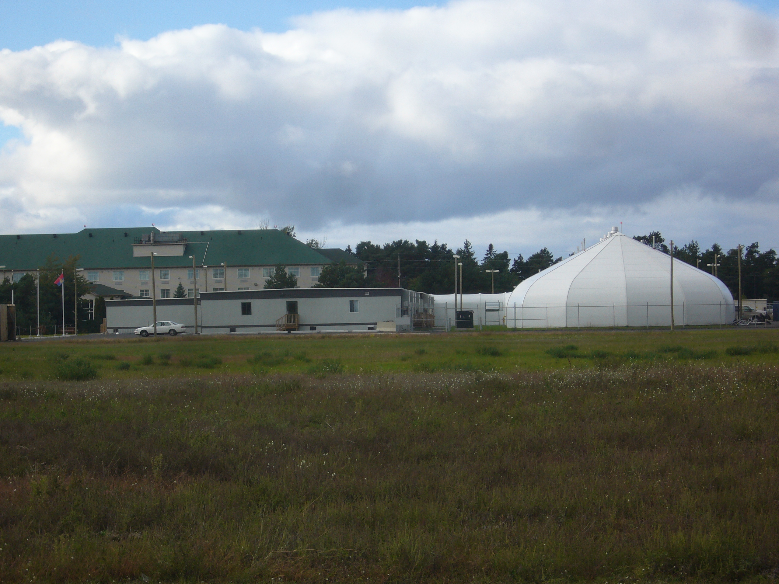 30th Field Artillery Regiment in Ottawa, Ontario, Canada